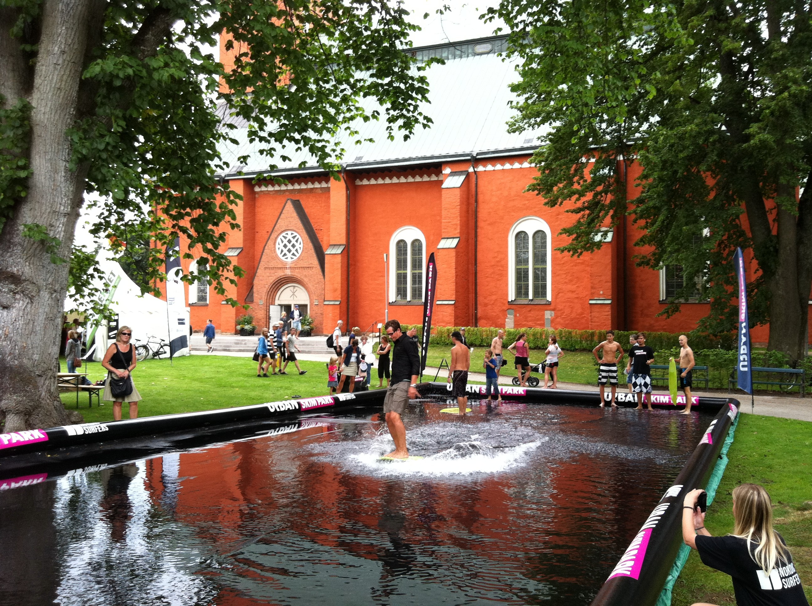 Skimboarding